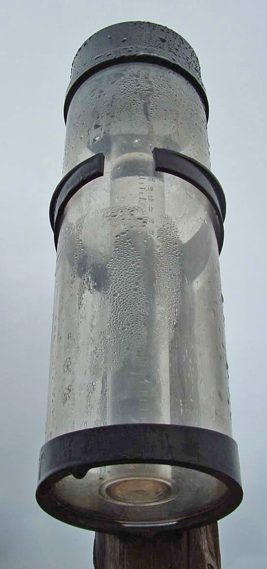 Nylex rain gauge 1000 which hold 250mm of rain in 1mm increments.